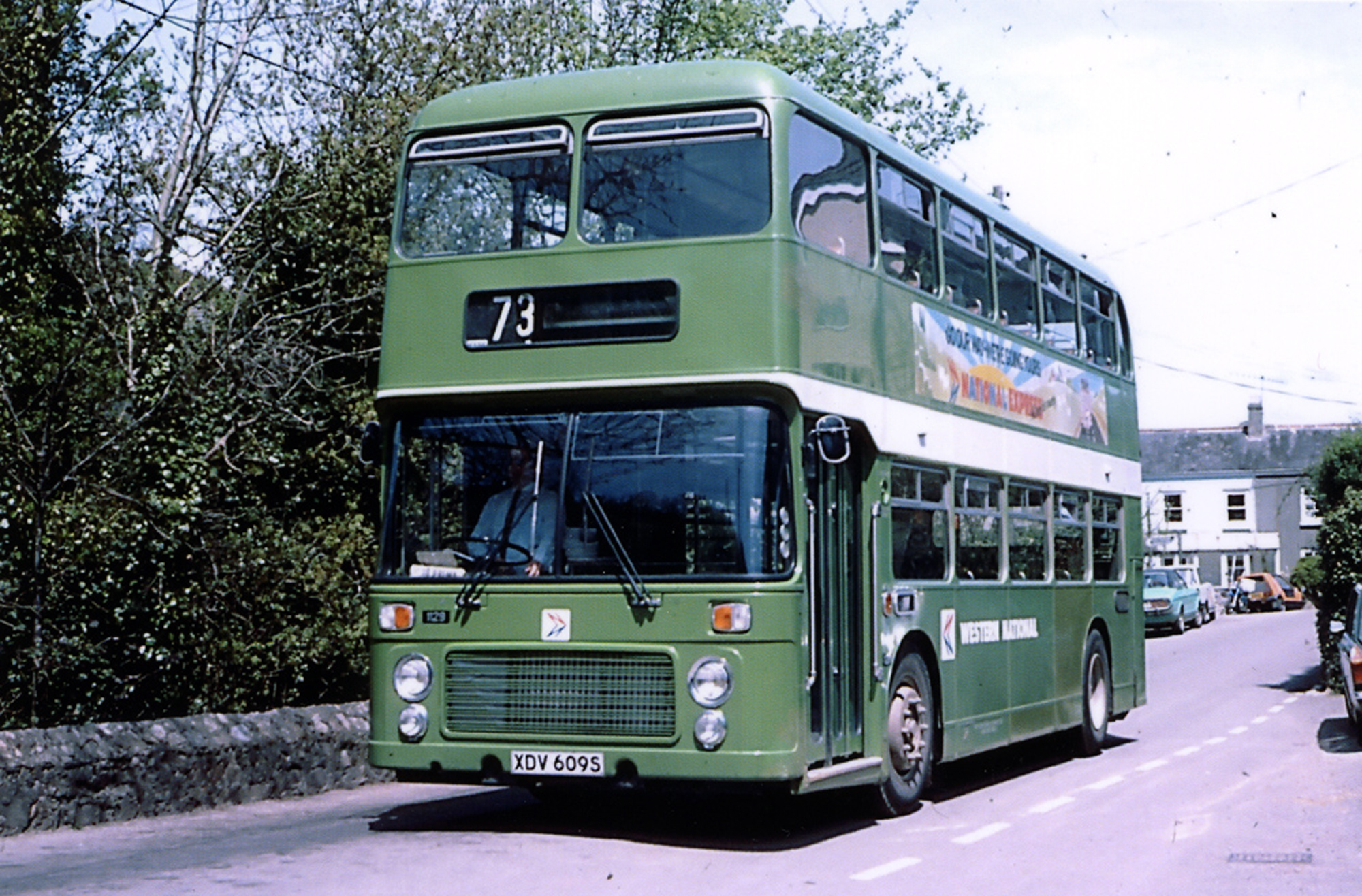 Western National 1129 (XDV 609S), a 1978 Bristol VR, in Forder just below Saltash, having worked the 1340hrs departure of service 73 from Plymouth. From the "Peter Horrex Collection".